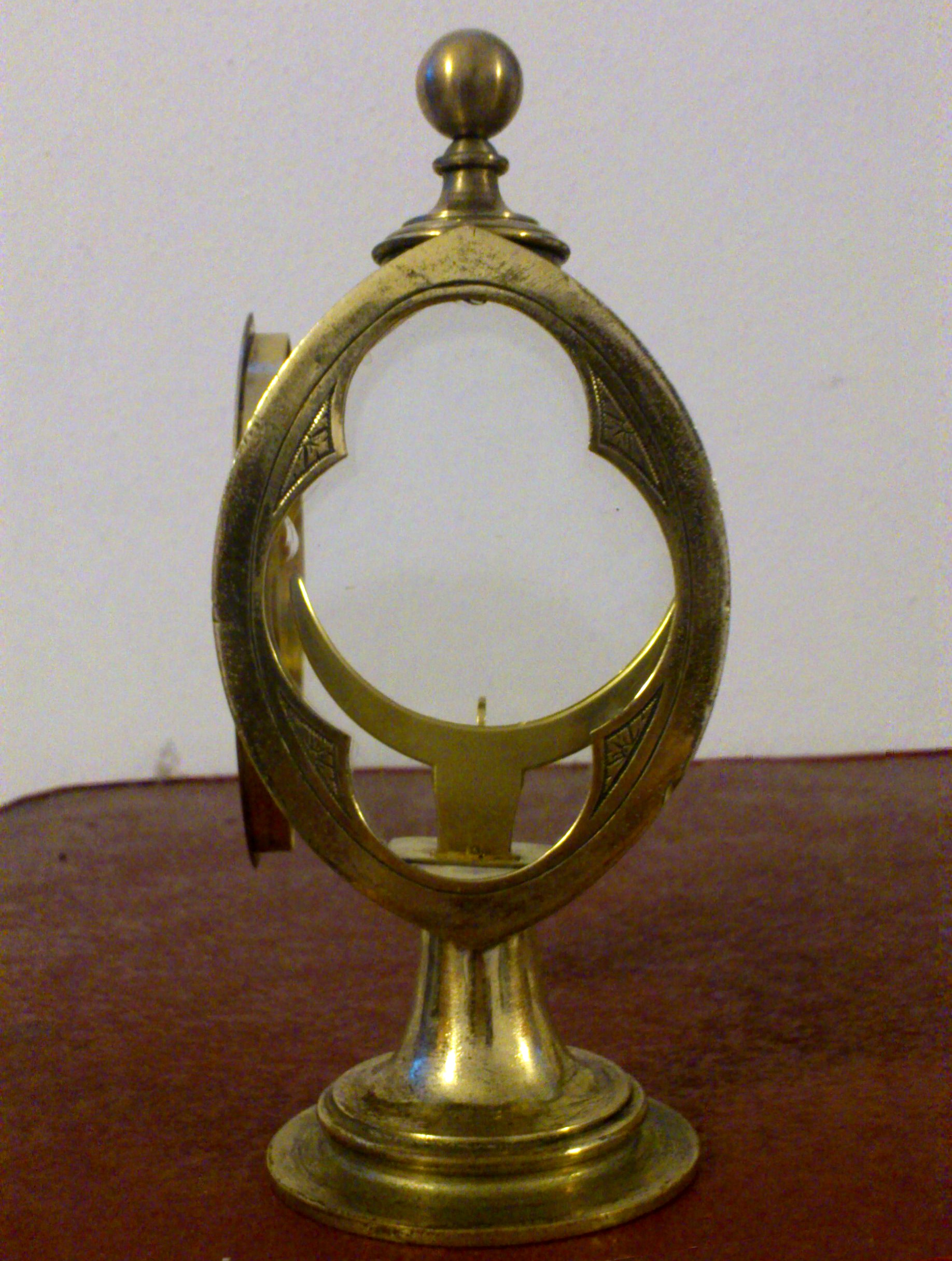 Eucharistic container for a consecrated host.